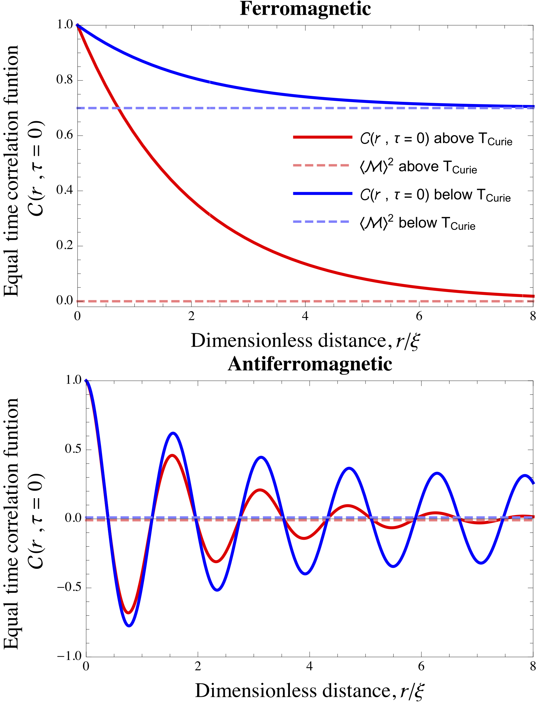 Schematic equal-time spin correlation functions for ferromagnetic and antiferromagnetic materials both above and below their Curie temperatures versus the distance normalized by the correlation length, ξ {\displaystyle \xi } . Note that in all cases, correlations are strongest nearest to the origin, indicating that a spin has the strongest influence on its nearest neighbors. Intuitively, all correlations gradually decay as the distance from the spin of interest increases. Note that above the Curie temperature, the correlation between spins tends to zero as the distance between the spins gets very large. This is in contrast to the case below the Curie temperature, where materials exhibit ordered spins. In such systems, the correlation between the spins does not tend toward zero at large distances, but instead decays to a level consistent with the long-range order of the system. The difference in these decay behaviors, where correlations between microscopic random variables become zero versus non-zero at large distances, is one way of defining short- versus long-range order. Intuitively, continuous order-disorder transitions can then be understood as process of the correlation length, ξ {\displaystyle \xi } , transitioning from being infinite in a low-temperature, ordered state, to finite in a high-temperature, disordered state.